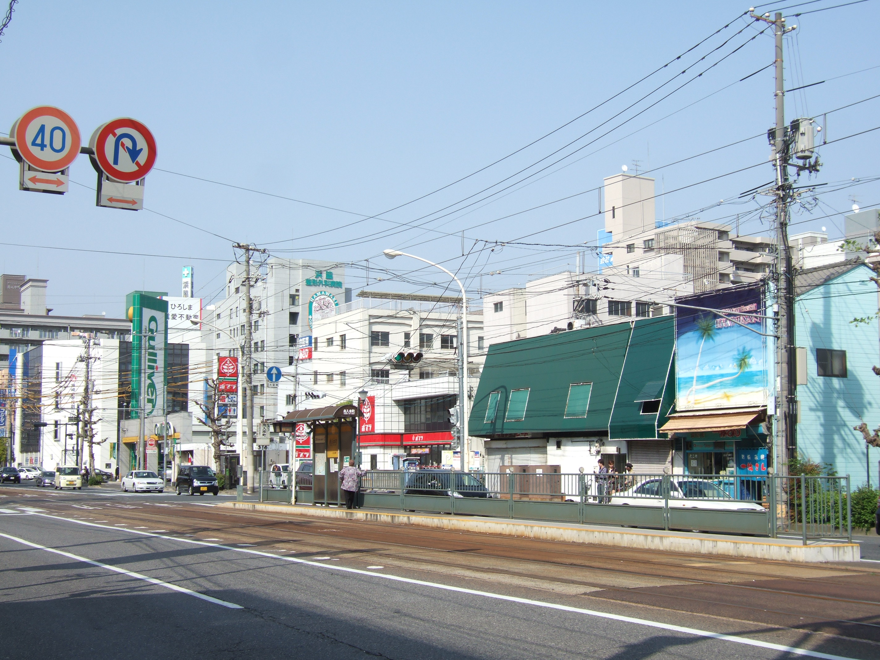 Funairi-Honmachi Tram Stop Platform for Eba on Hiroshima Electric Railway Eba Line